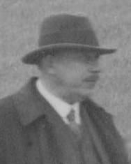 Walther Bauersfeld, Mathematical Society Jena, visitors' conference at Abbeanum in Jena, 26th until 28th October 1930. (Cropped from File:Mathematische Gesellschaft Jena 1930.jpg)